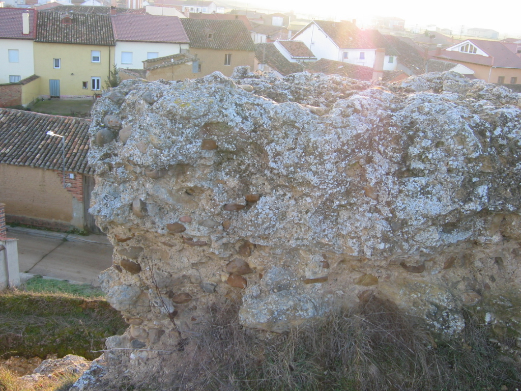 Castle of Castrillo de Villavega (Palencia, Castile and León).